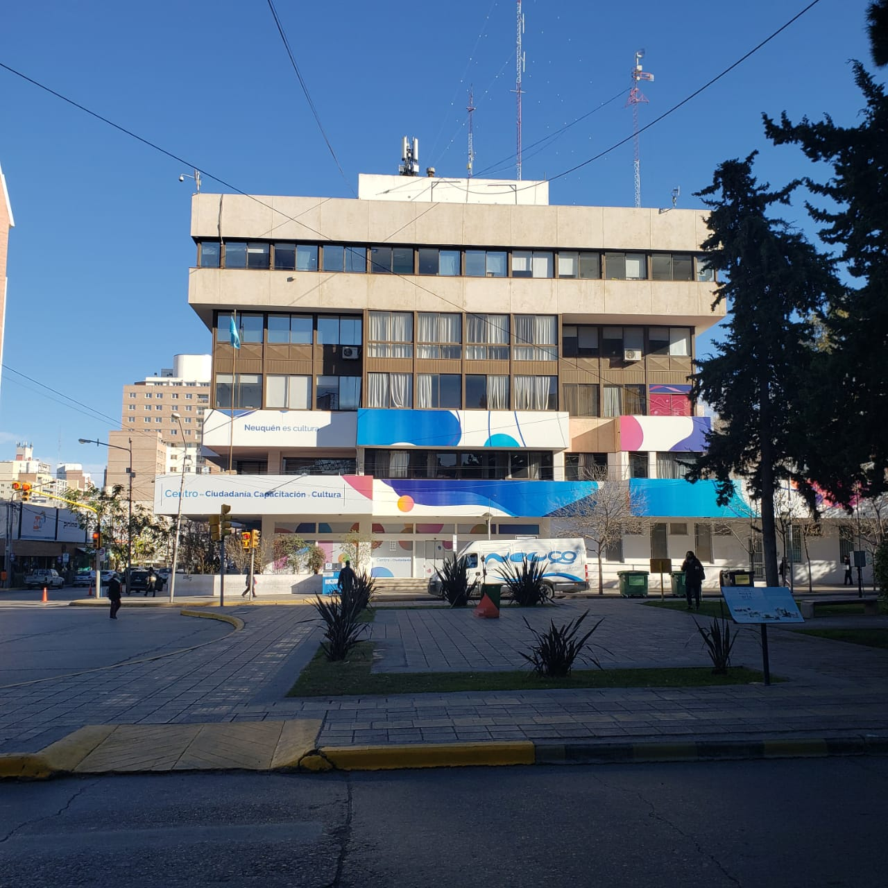 View of the central building of Roca and Avenida Argentina